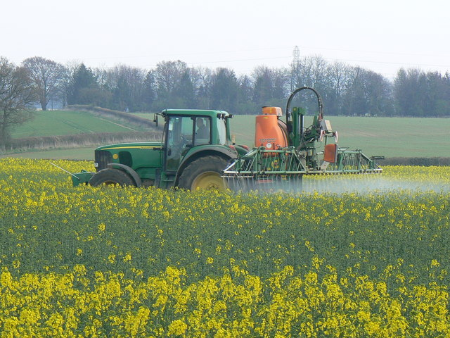 Crop spraying near St Mary Bourne. I know not whether the spray is herbicide, pesticide or fertiliser. The crop is rapeseed. Coming into full flower soon, the air was filled with its rather rank scent. The pylons in the background are about a kilometre south of the viewpoint.